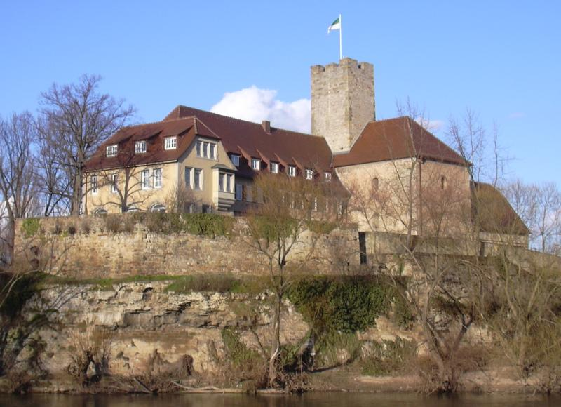 Former castle, now town hall of Lauffen am Neckar, Germany